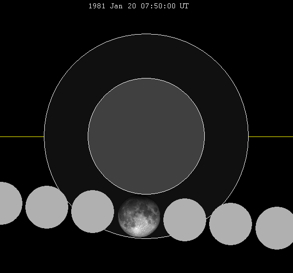 January 1981 lunar eclipse chart of moon's penumbral lunar eclipse path through the earth's shadow. thumb